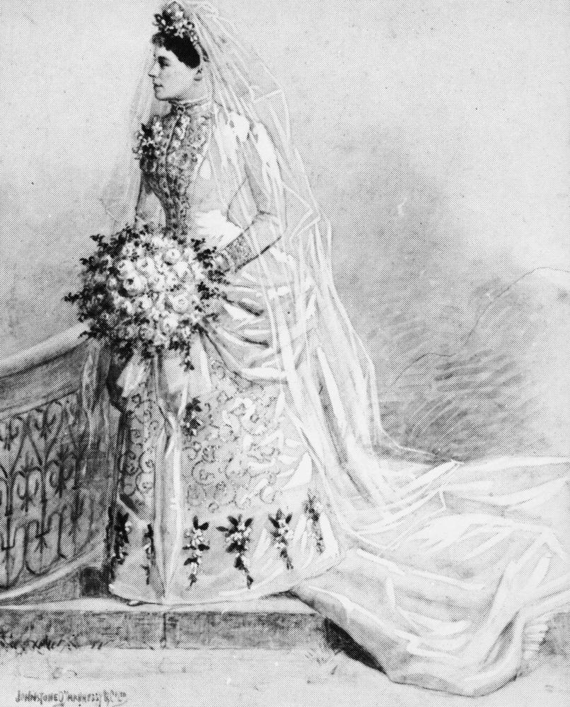 Bridal photograph of Evelyn Jane Casey, nee Harris, 1888 Evelyn Casey was born in 1867. As Evelyun Harris of Newstead House, she was one of the Belles of Brisbane. In 1888 she married R. G. Casey in St. John's Cathederal. Their son, Richard Gardiner Casey (Lord Casey) was Governor-General of Australia from 1965-1969. (Description supplied with photograph).